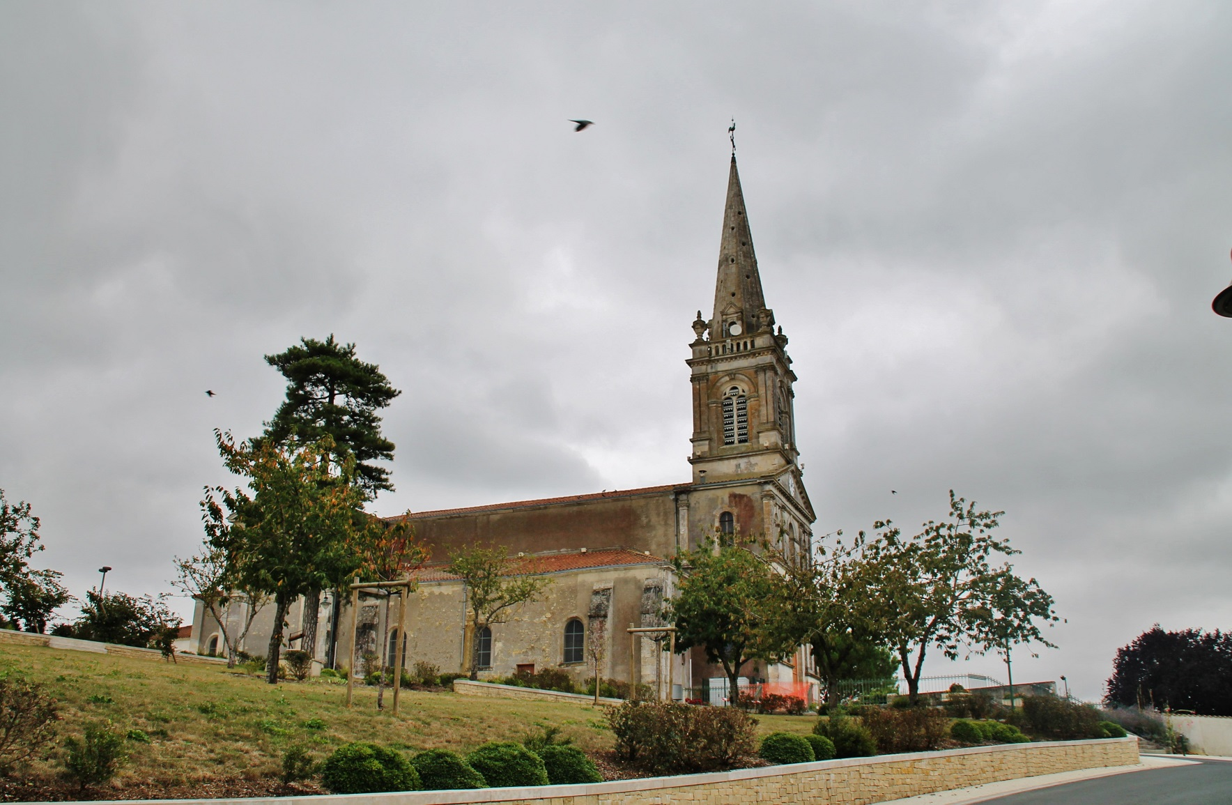 L'église